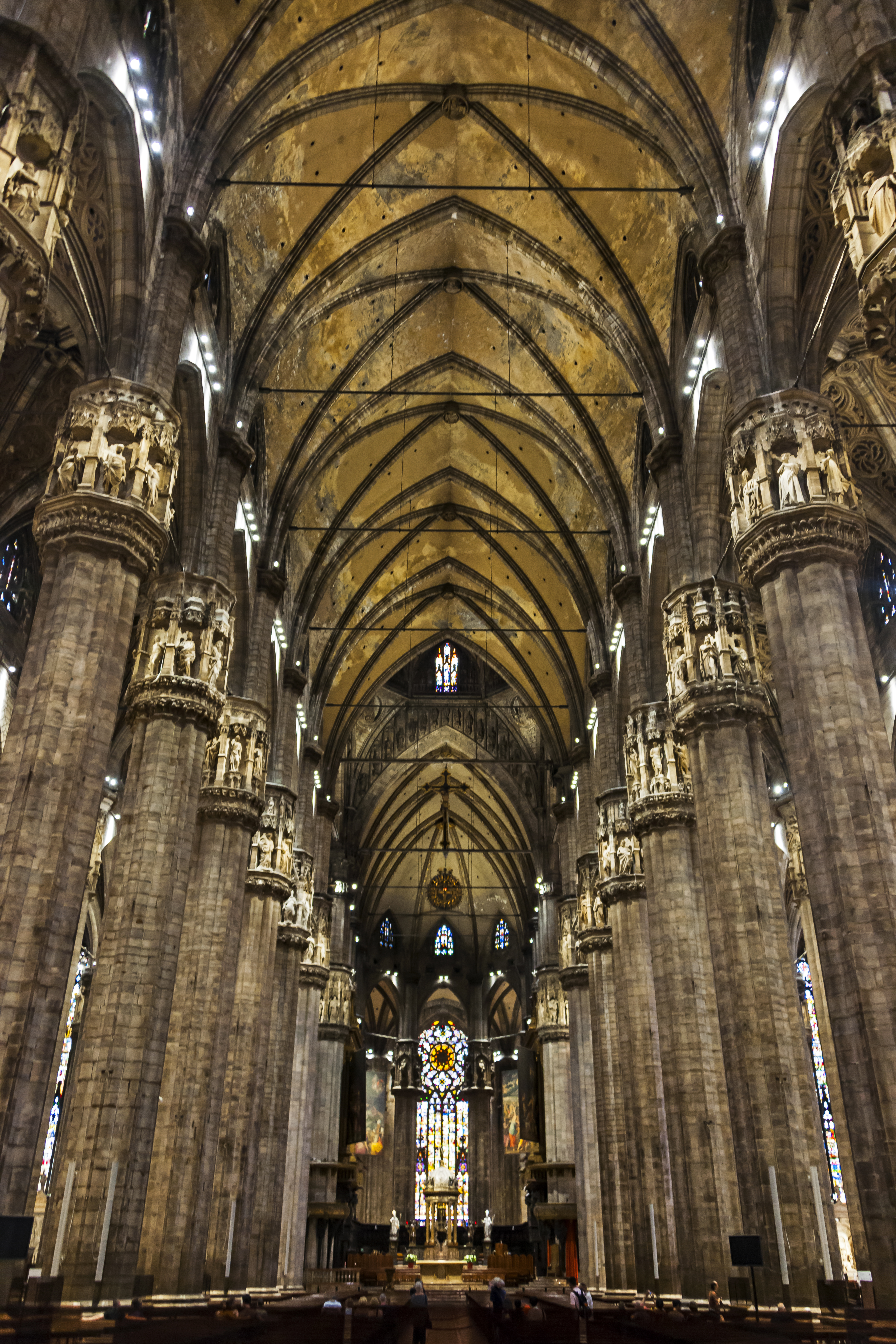 The sanctuary of Il Duomo in Milan, the largest Catholic Church in Italy.